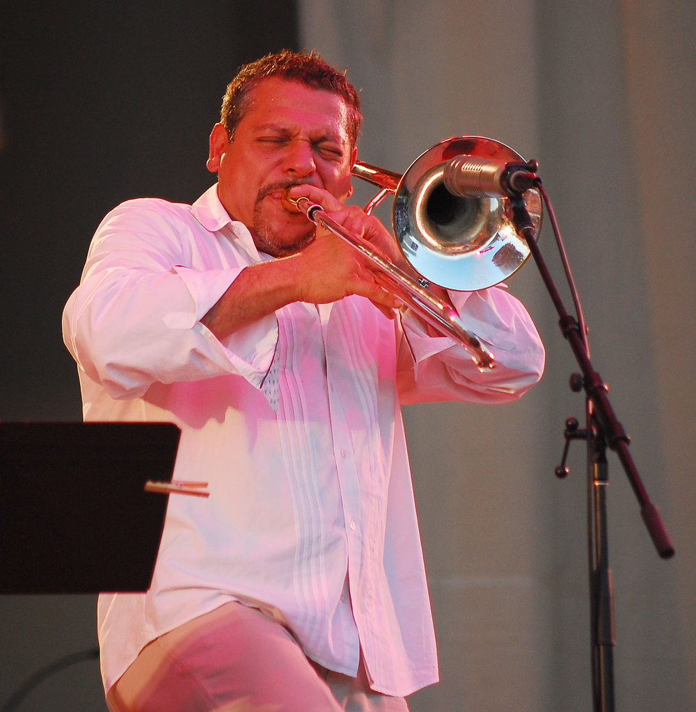 Trombonist Luis Bonilla performing with Brass Ecstasy at Chicago Jazz Festival 2008